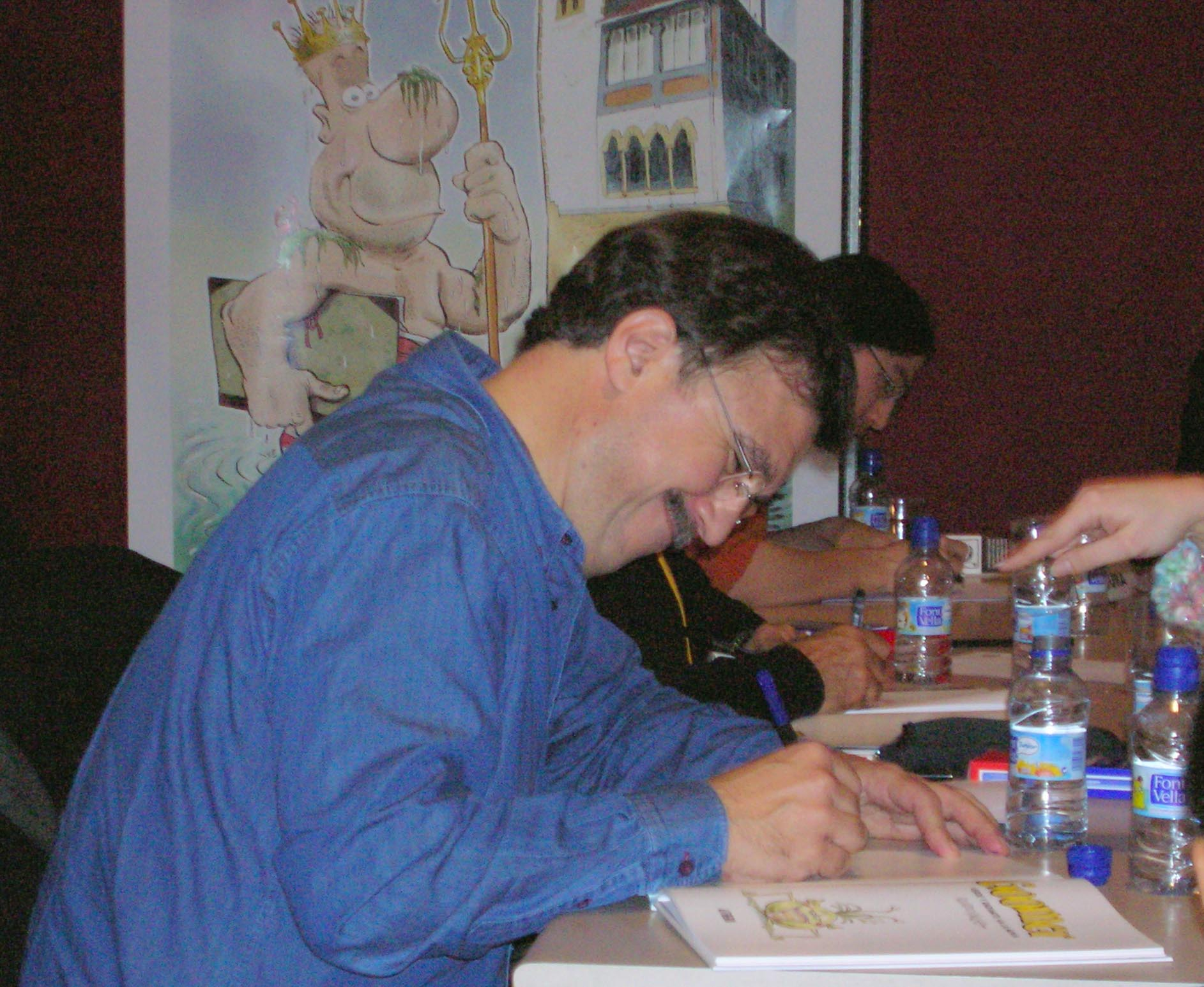 Ricardo Martínez, Chilean born and Spanish resident comic and caricature artist, (of Ricardo & Nacho duo) signs a Goomer album in the IV Getxo Comic Con. Behind him, in black sleeves, Horacio Altuna's hands can be seen; beyond, Ken Namura (sp?). On the wall, the poster of the Convention presents an ilustration by Ricaro Martínez, depicting his character Goomer behing the lighthouse of Casa de Socorro, in the port of Algorta.